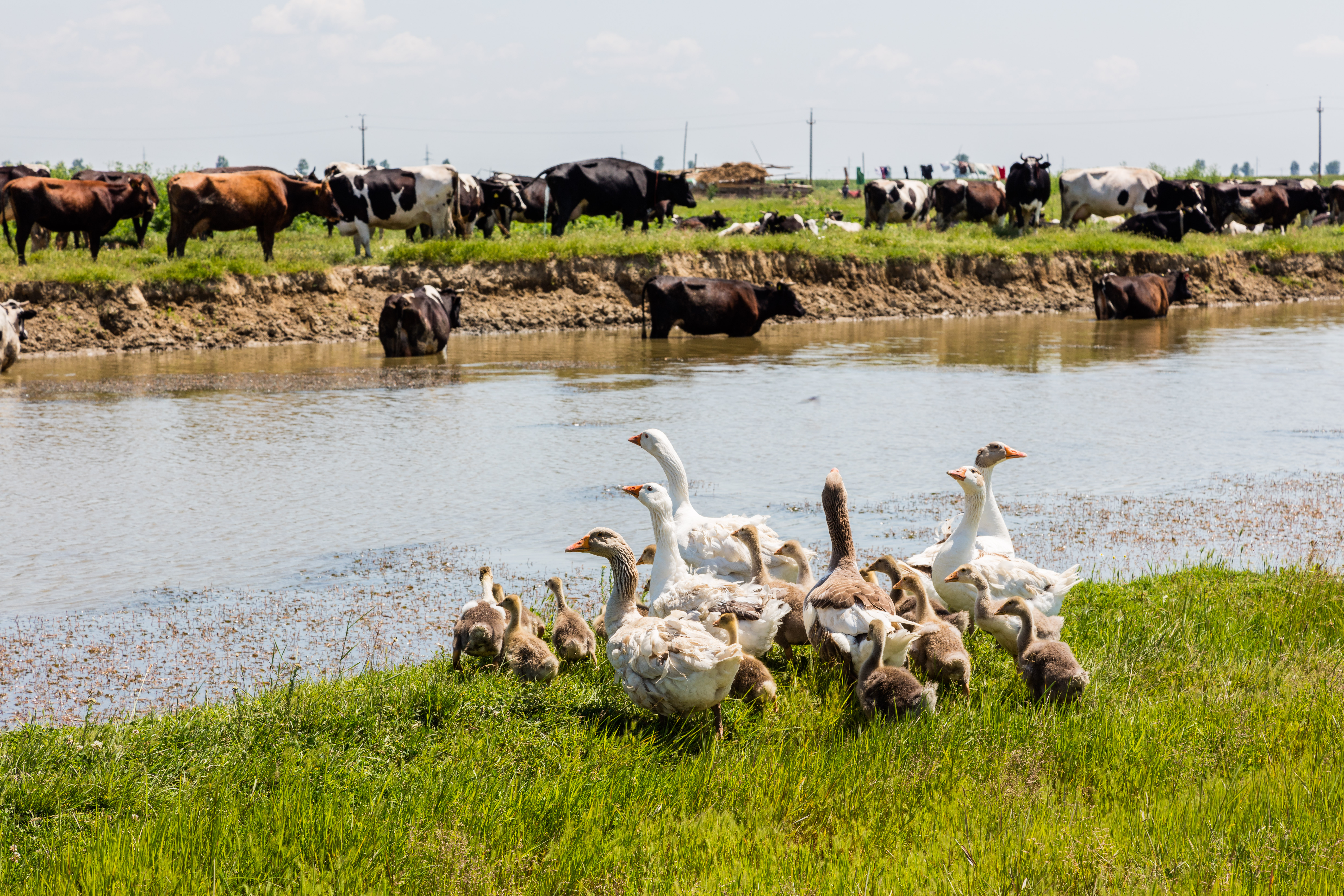 Greylag Goose (Anser anser) next to the Bruzau river, Surdila Greci, Romania